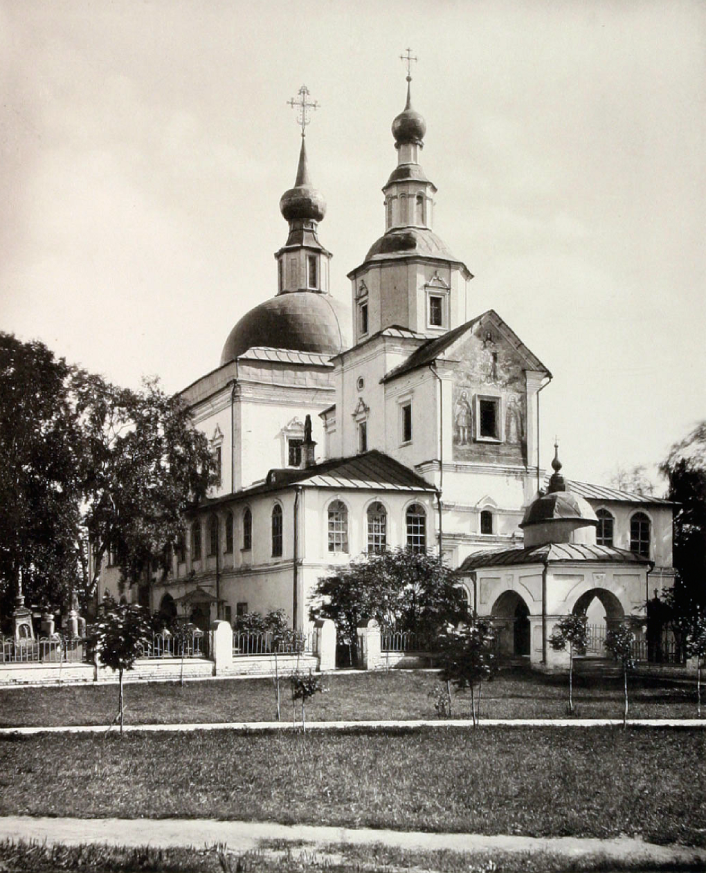 Danilov Monastery, Moscow. Church of the Holy Fathers.